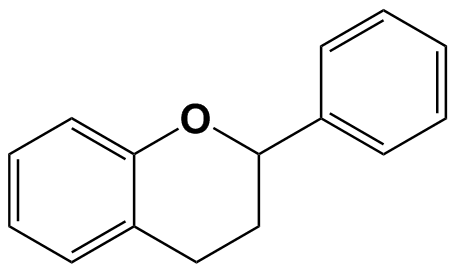 Structure of 2-phenylchroman